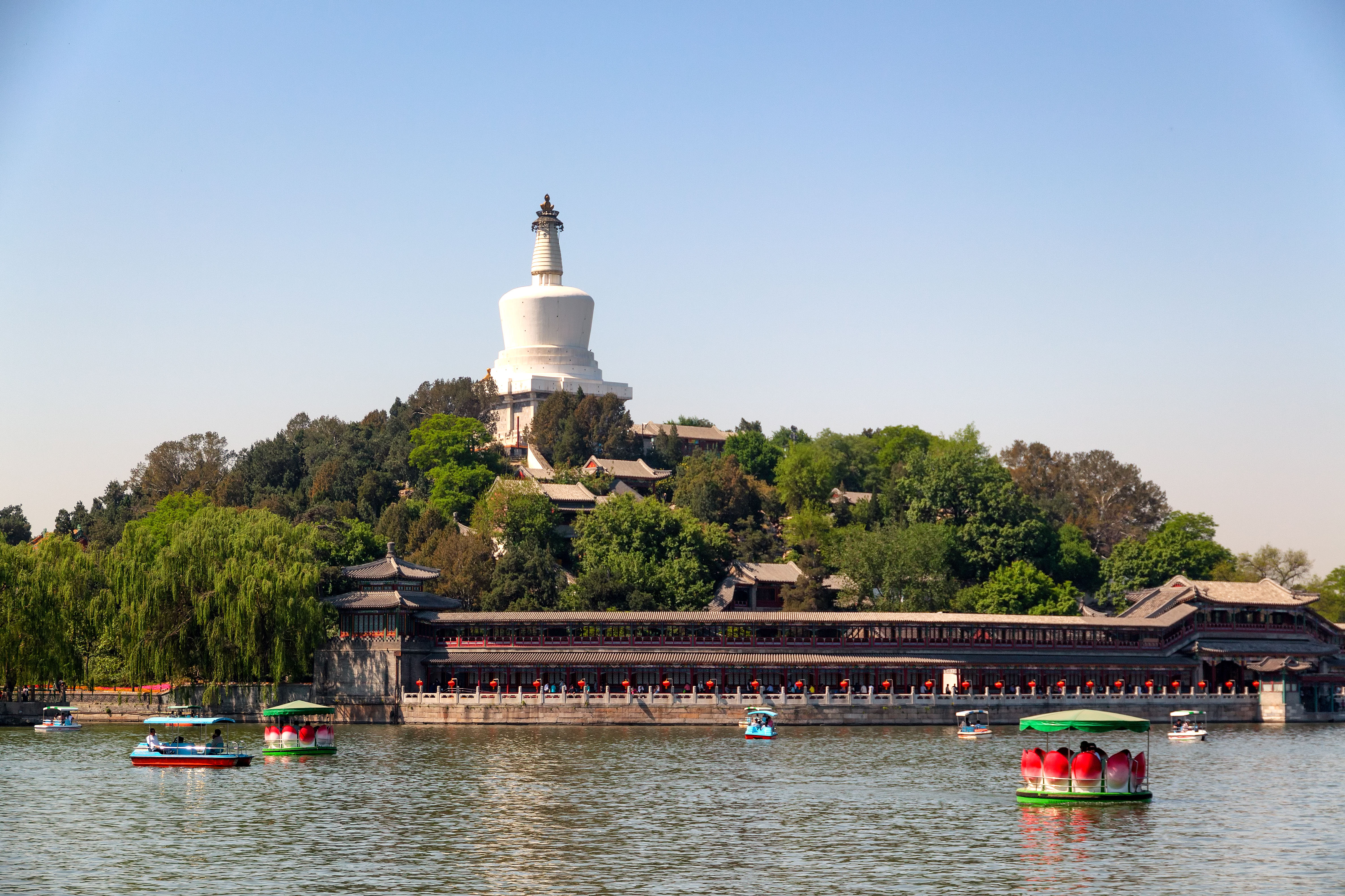 The Beihai Park in Beijing, China, photo by Chen Yihan, 北京北海公园